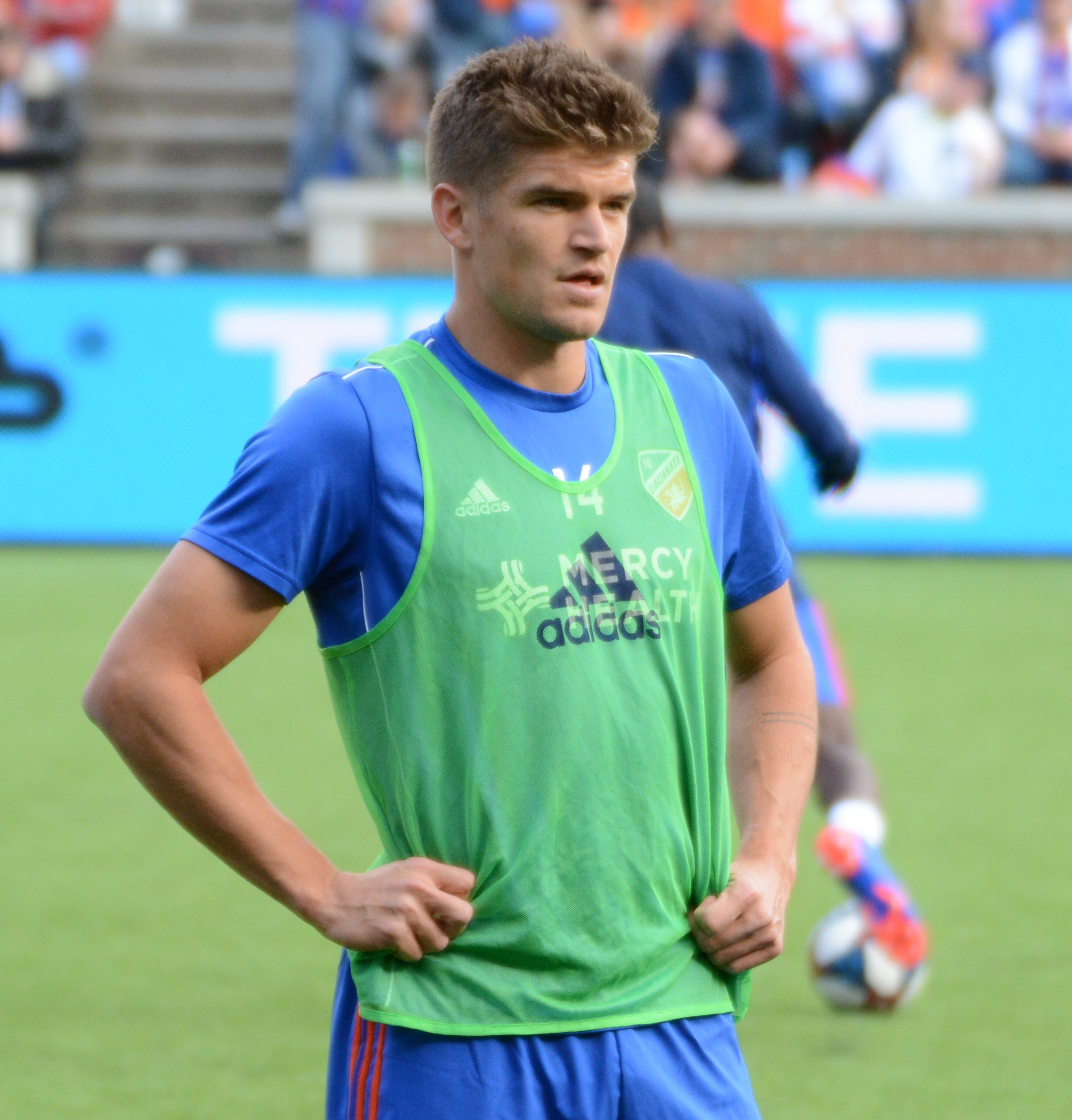 Taken during FC Cincinnati's Major League Soccer regular season home opener match against Portland Timbers at Nippert Stadium in Cincinnati, USA on March 17, 2019.